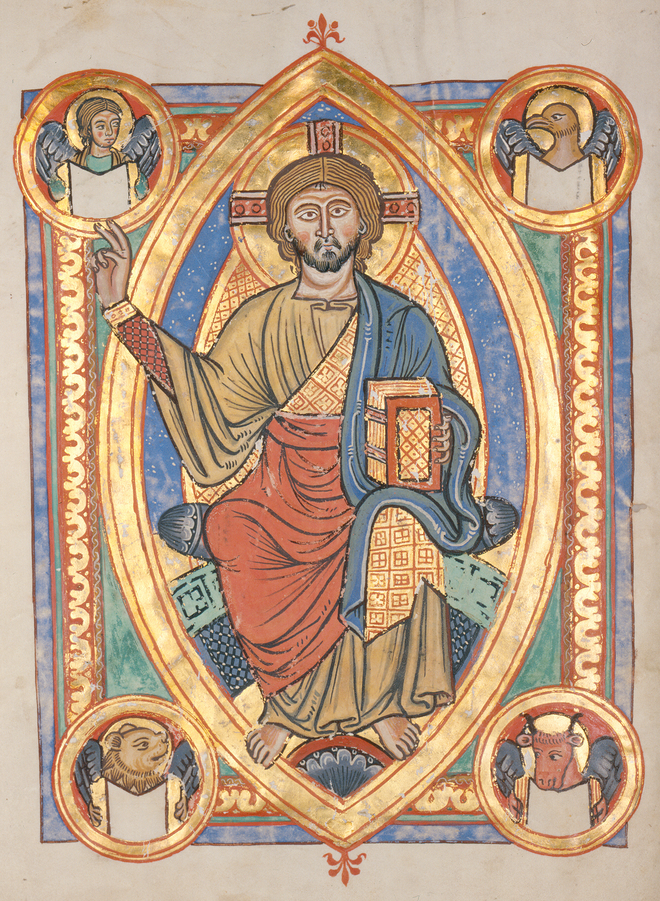 Evangelistar von Speyer, um 1220 Manuscript in the Badische Landesbibliothek, Karlsruhe, Germany Cod. Bruchsal 1, Bl. 1v Shows Christ in vesica shape surrounded by the "animal" symbols of the four evangelists.